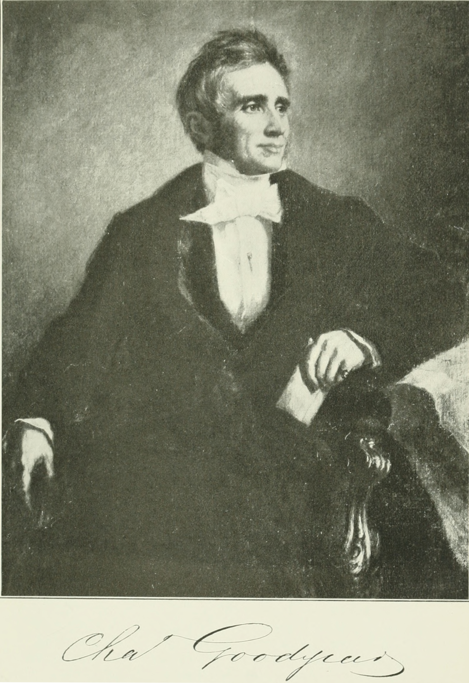 Charles Goodyear. Below the image it says "From the painting by G. P. A. Healy. Museum of the Brooklyn Institute of Arts and Sciences."